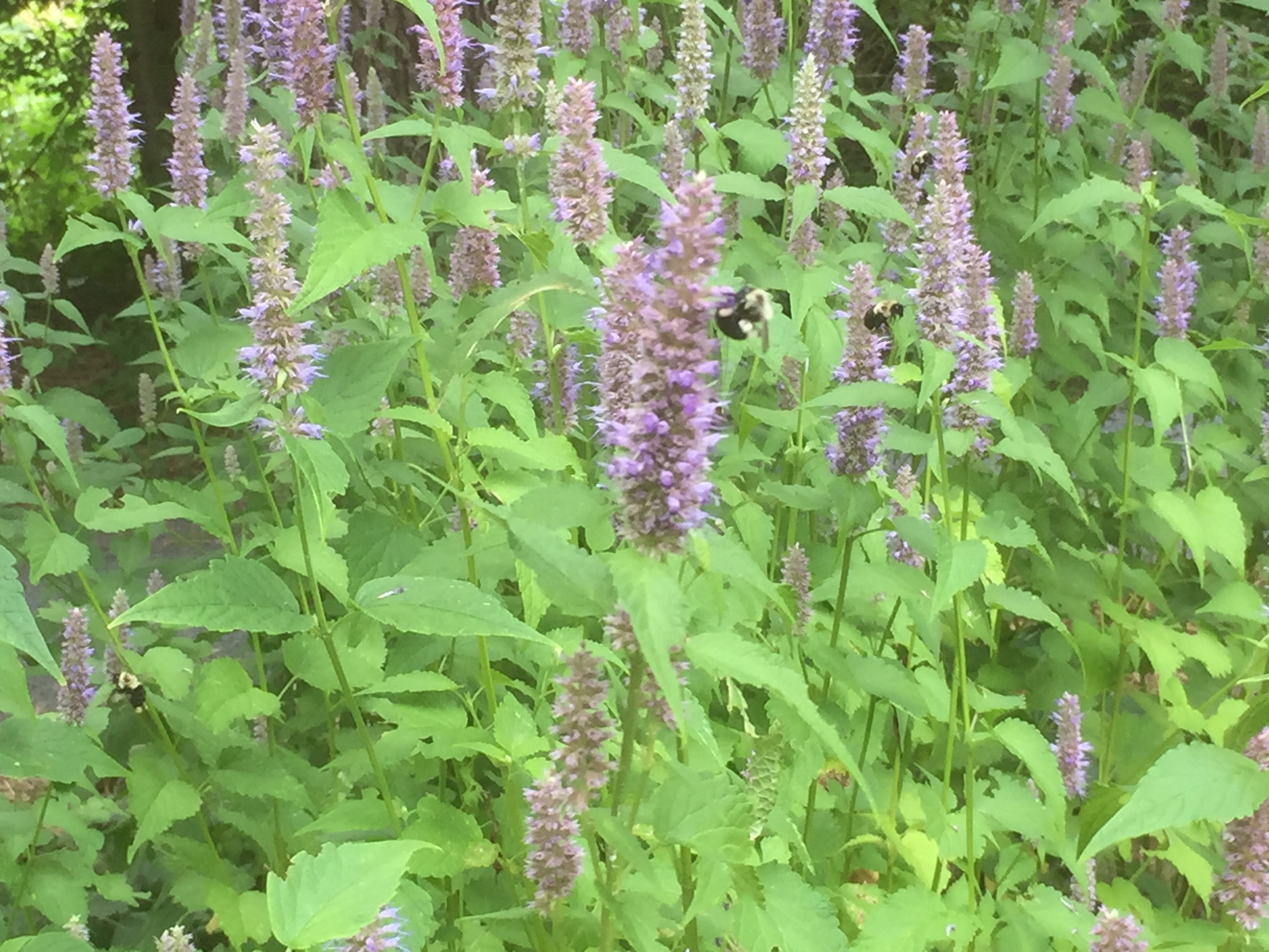 This picture shoes several bumblebees feeding on a patch of anise hyssop